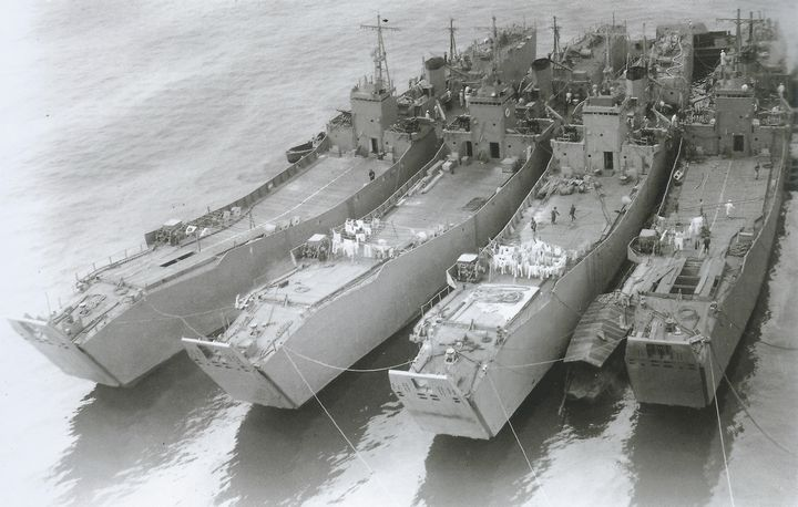 IJN landing ship No.150, No.101, No.127 and No.149 (left to right)